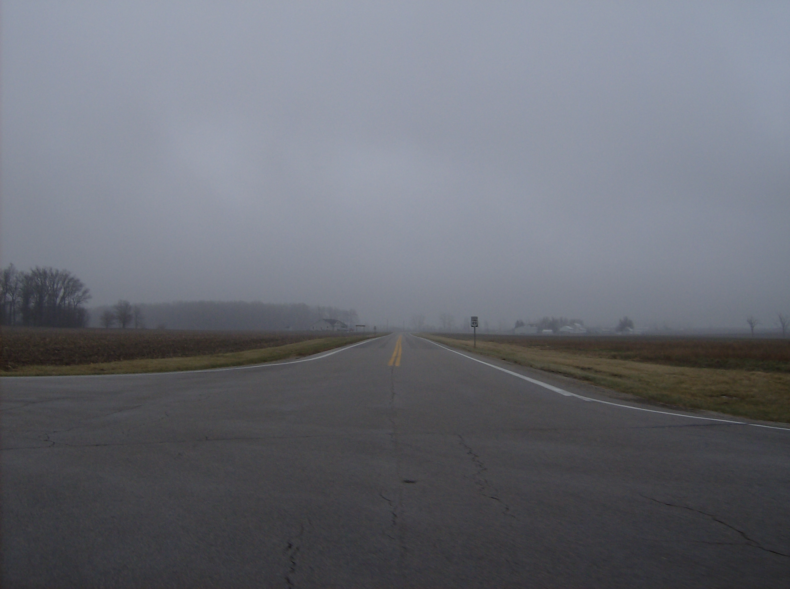 Along southbound State Route 49 at its intersection with State Route 705 in northern Mississinawa Township, Darke County, Ohio, United States.